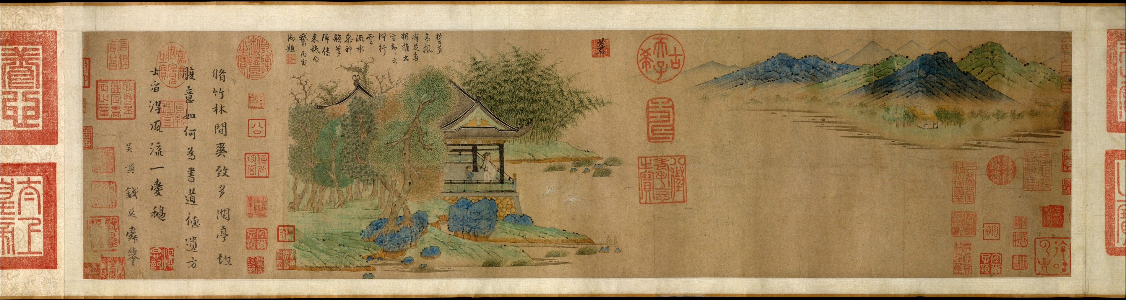 Qian Xuan Wang Xizhi Watching Geese. (23,2x92,7cm) Metropolitan Museum of Art, N-Y